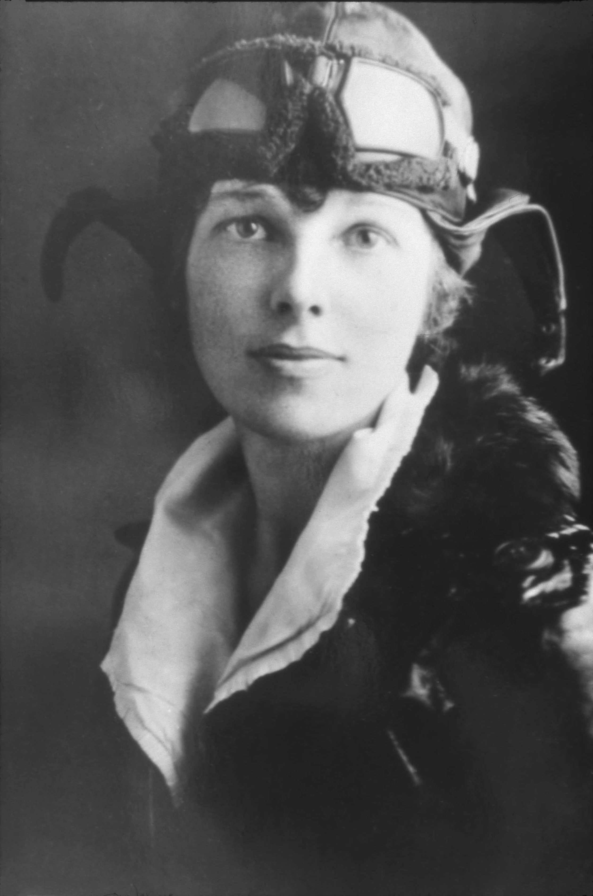 Amelia Earhart dressed to fly.